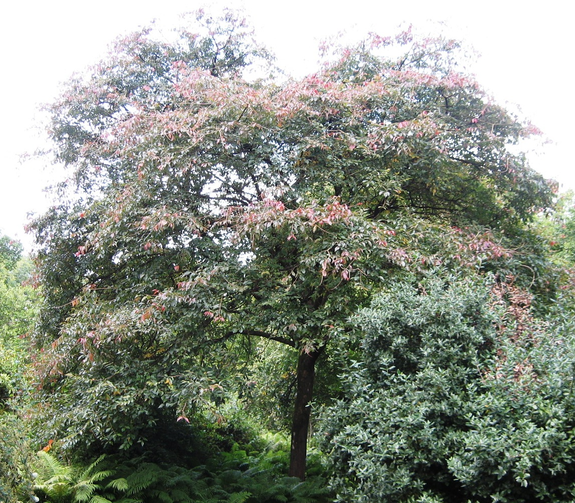 Ulmus 'Jacan', Sir Harold Hillier Gardens; Photo by R. Nijboer